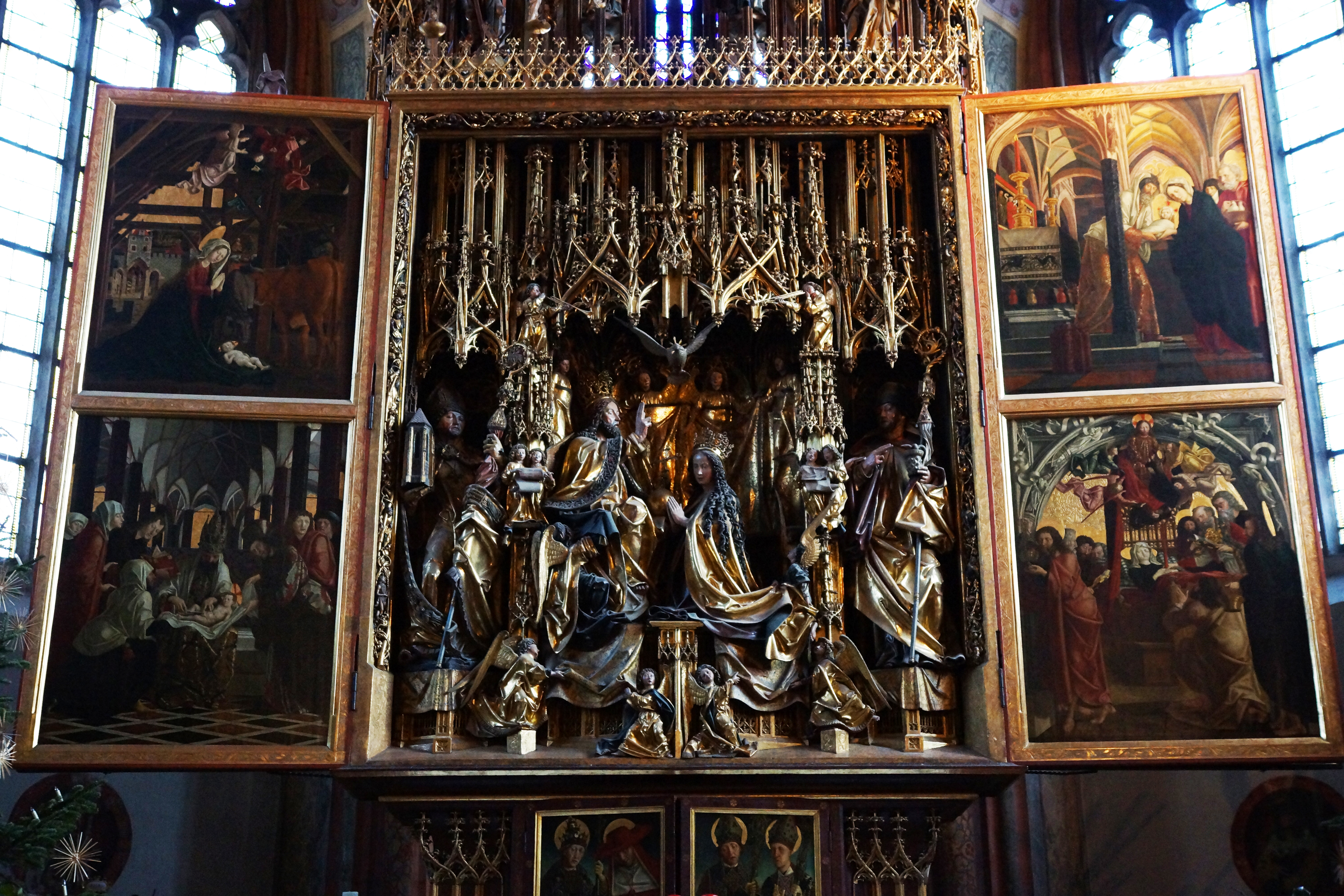 St. Wolfgang Pilgrimage Church Winged Altar by Michael Pacher, 1481